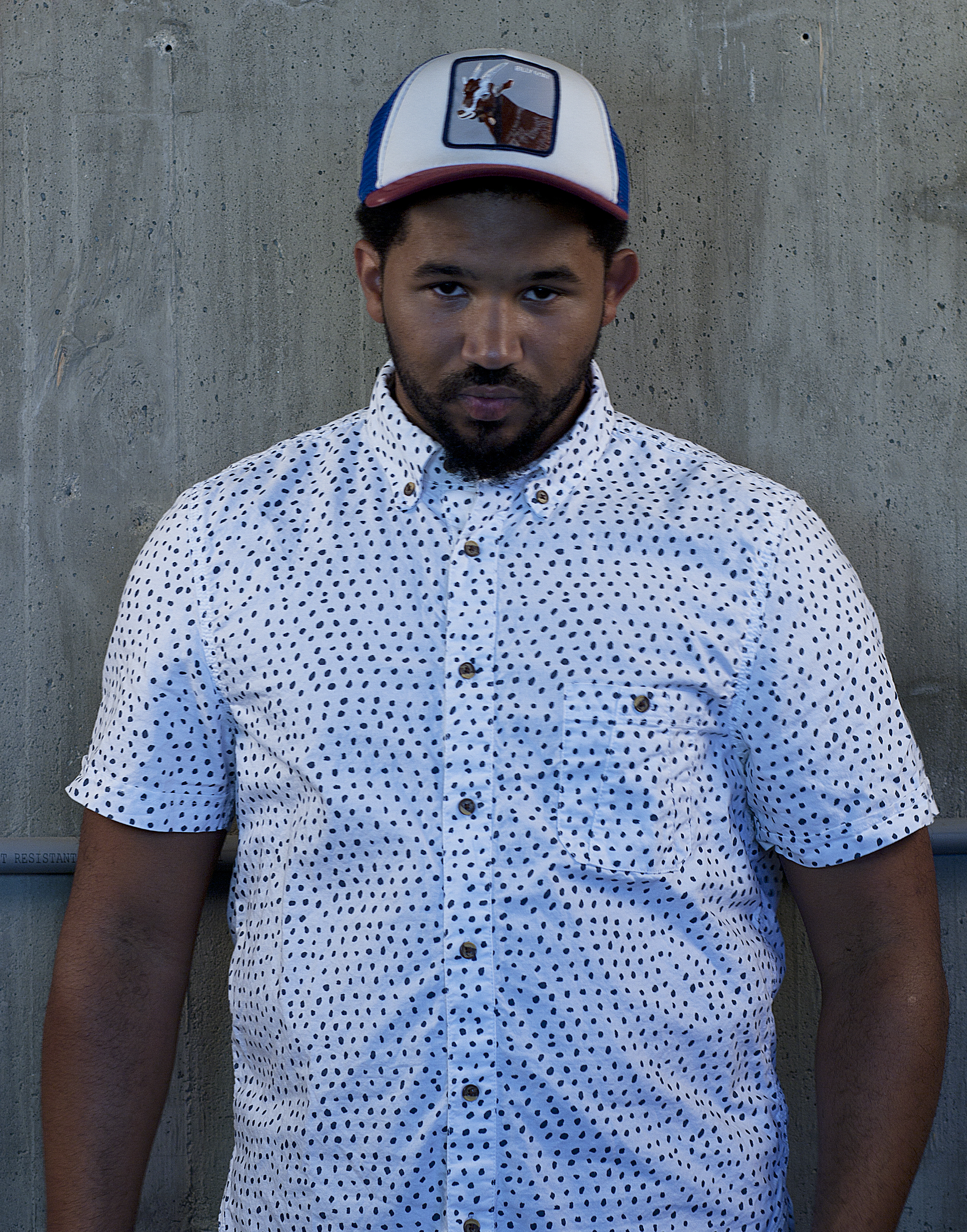 Joshua "Ammo" Coleman